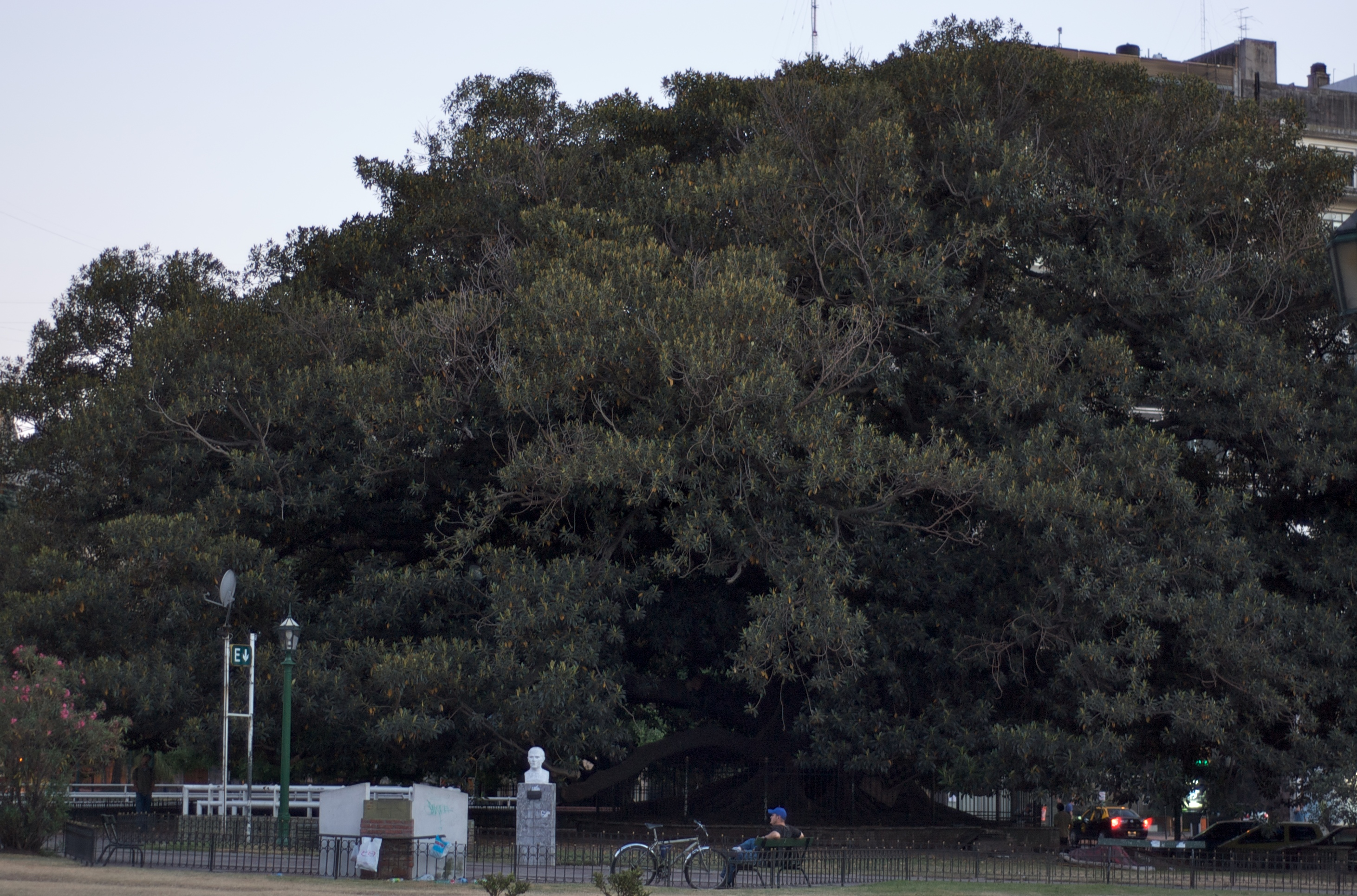 It's a really large tree!!!